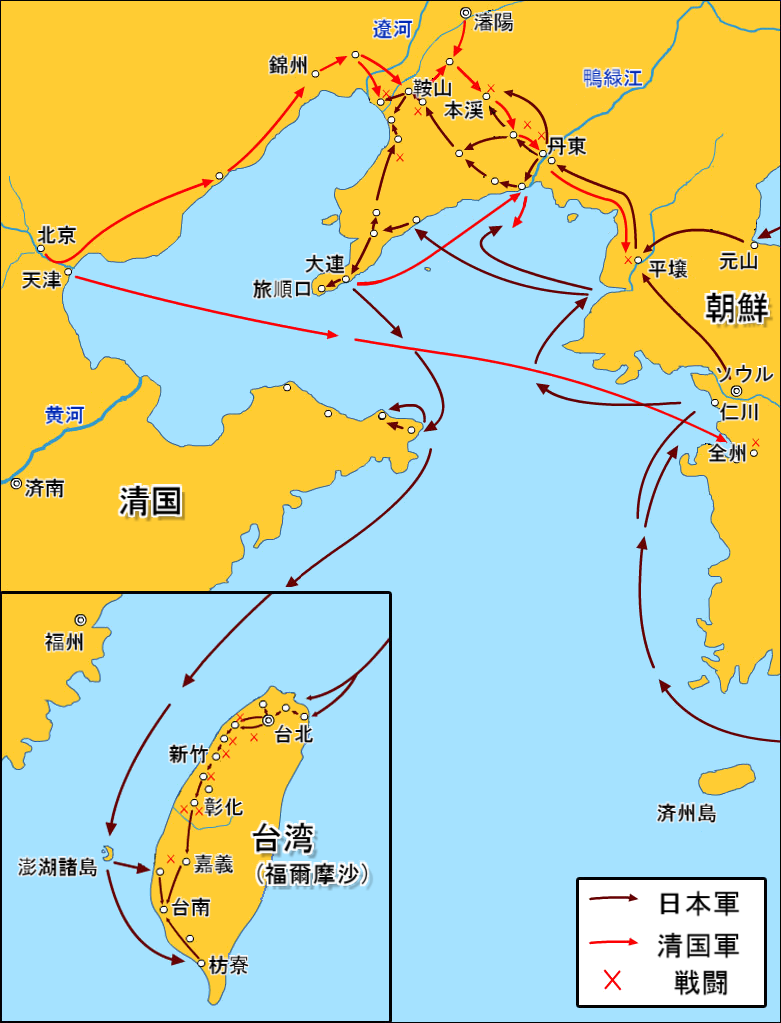 Map of battles during the first Chinese-Japanese war (1894-95).